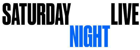 Logo of Saturday Night Live